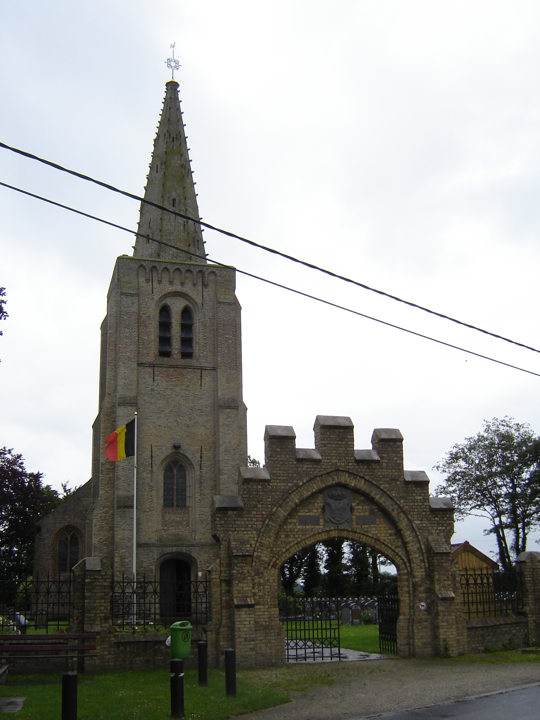 Church of Saint Apollonia in Oeren. (parish church until 1808, when the parish was abolished and merged with the parish of Saint Audomare in Alveringem). Oeren, Alveringem, West-Flanders, Belgium.